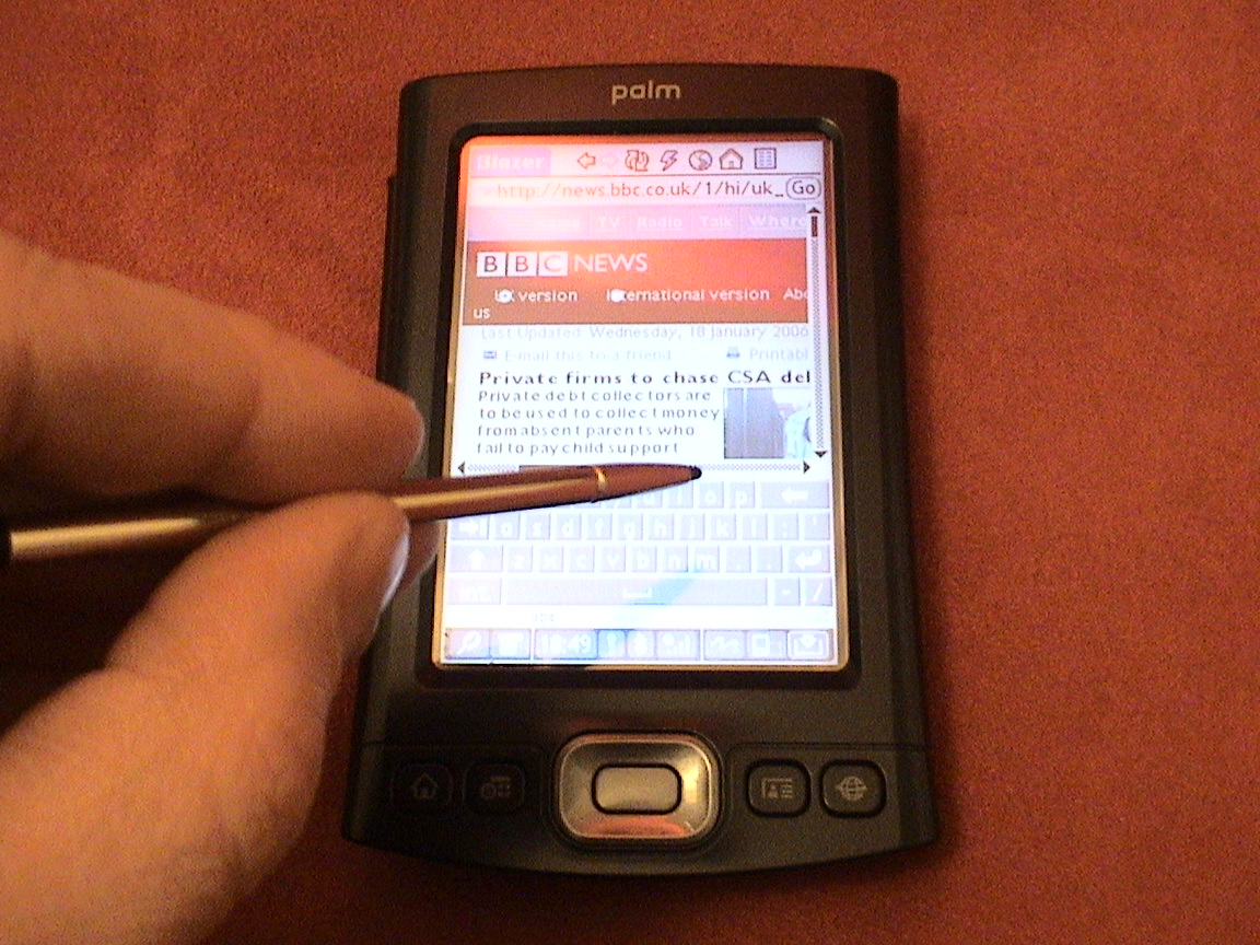 This picture of my Palm TX was taken by me, Brusselsshrek ( Talk